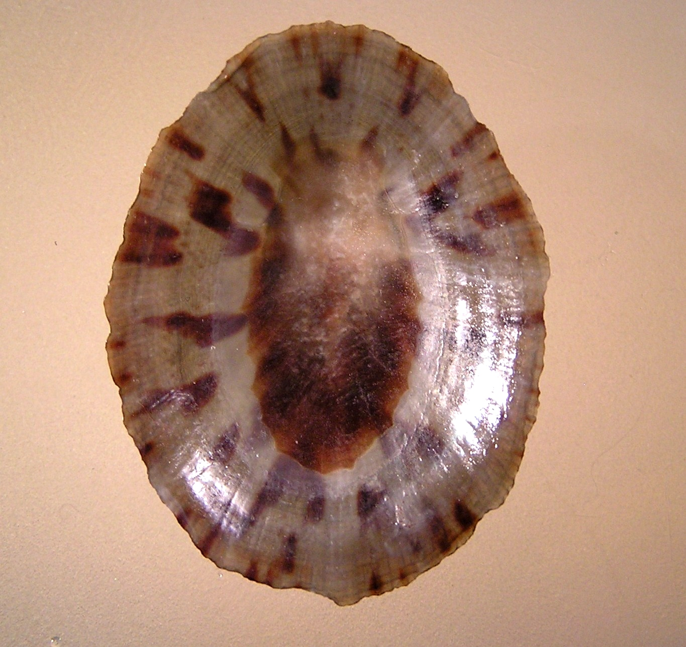 Patelloida striata Quoy & Gaimard, 1834, a limpet from the family Lottiidae; Philippines